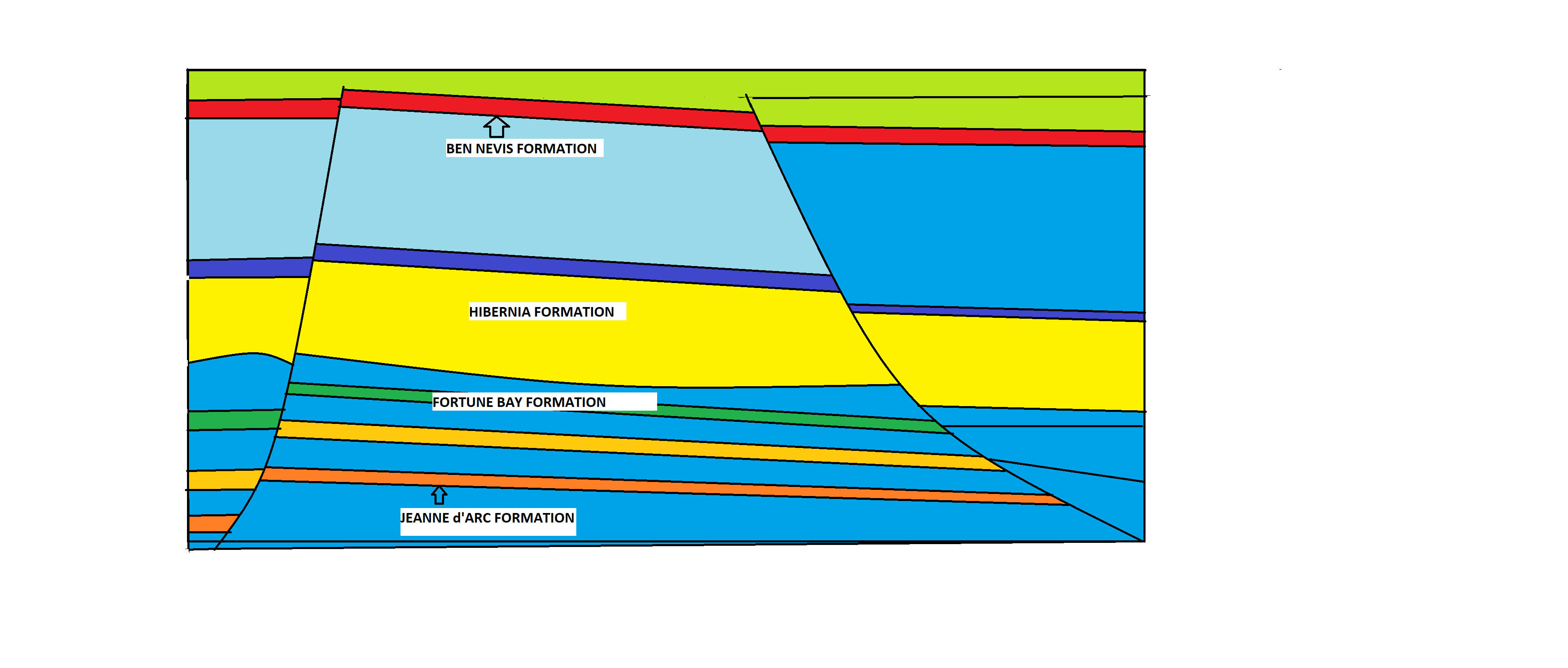 This shows the stratigtaphy of the Hebron Fault Block including the 4 main formations which are currently being depleted.